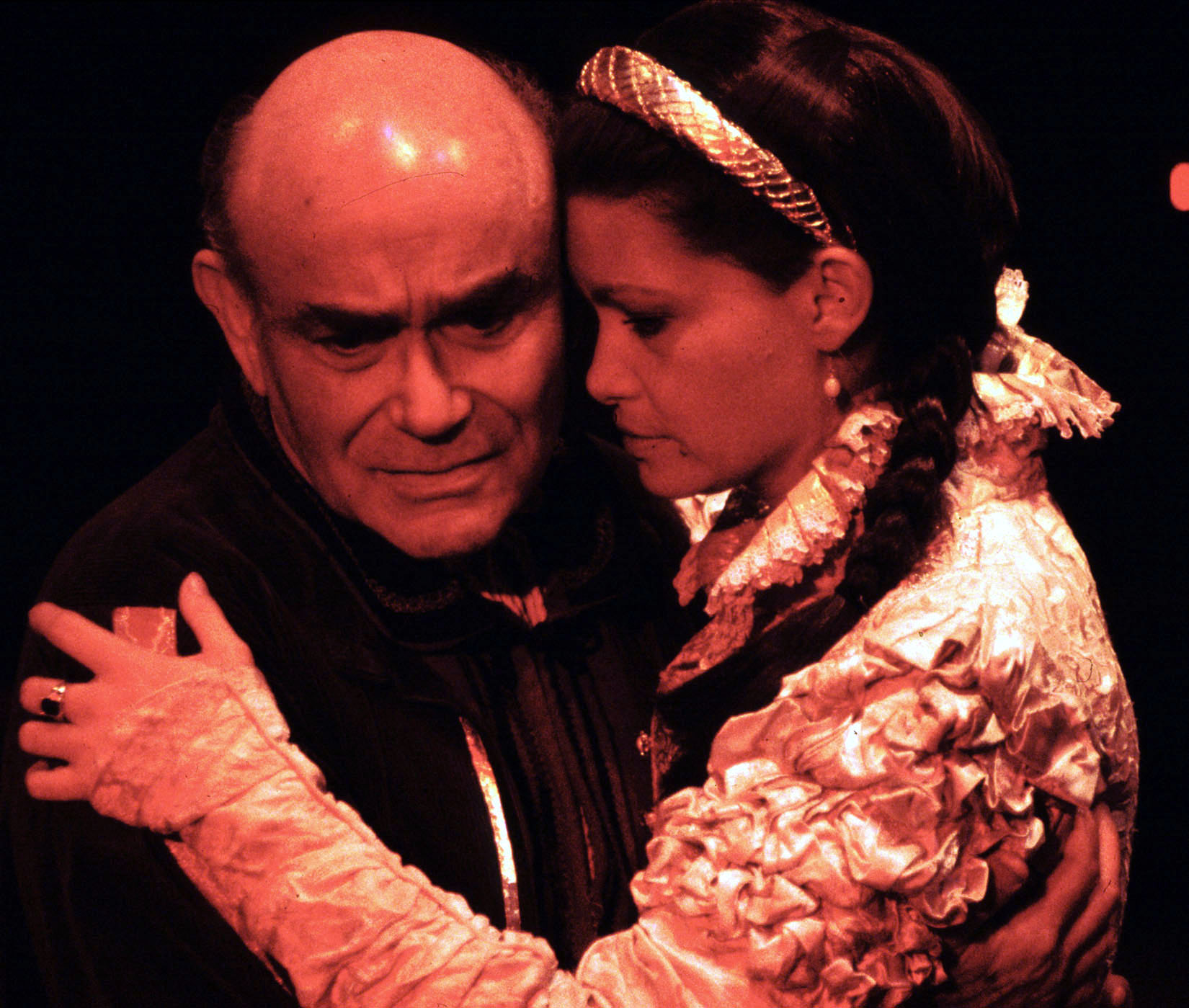 Alex Peckman as the Earl of Warrick and Julie Hughett as Countess of Salisbury in the Carmel Shakespeare Festival production of Edward III, August, 2001.